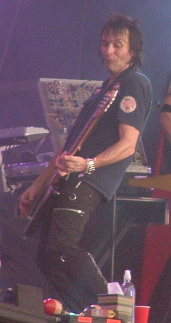 The New Lineup of GUNS N' ROSES (Robin Finck, Tommy Stinson, Axl Rose and Richard Fetus)